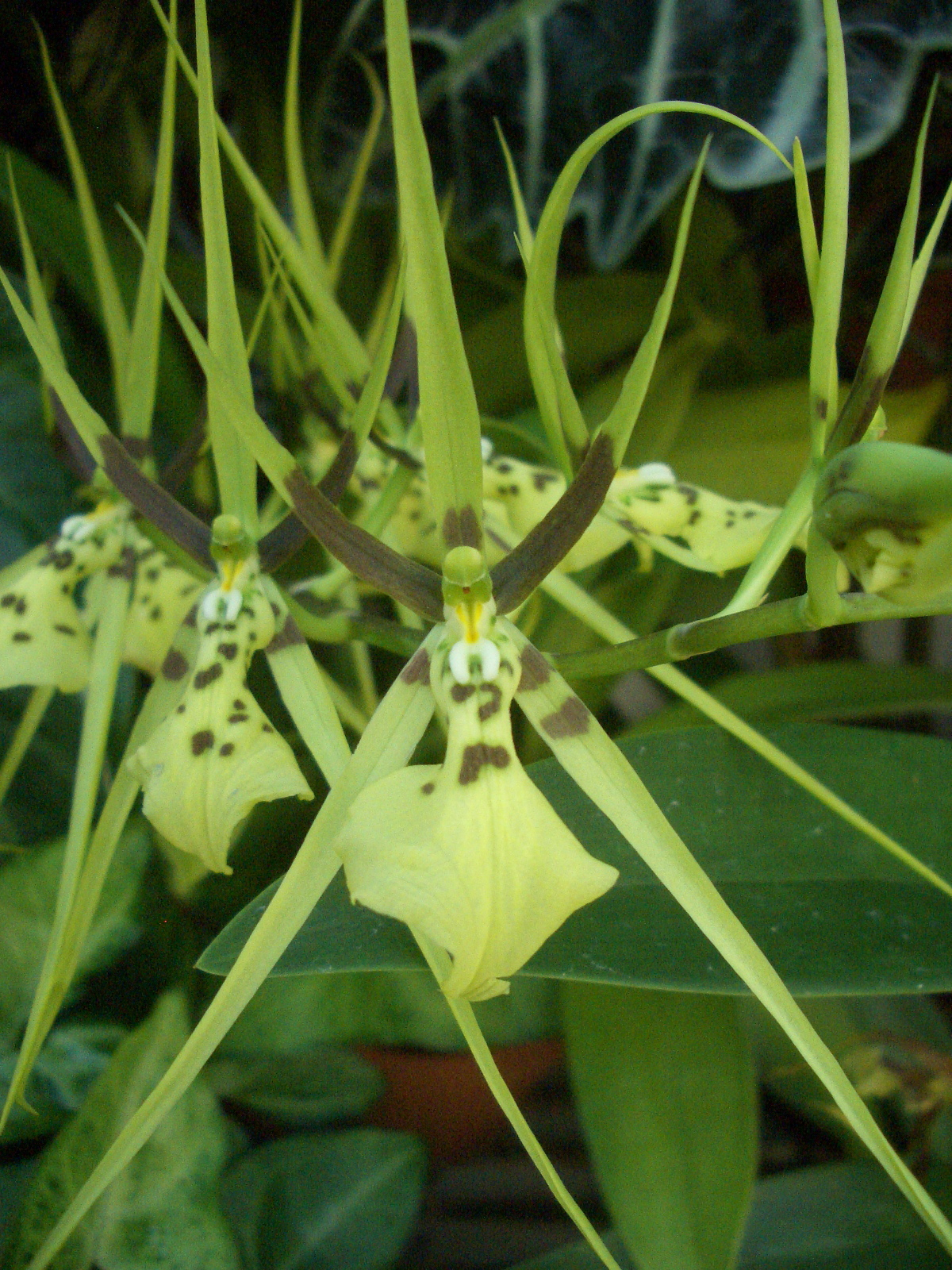 Brassia gireoudiana flowers; Conservatory of Flowers, Golden Gate Park, San Francisco